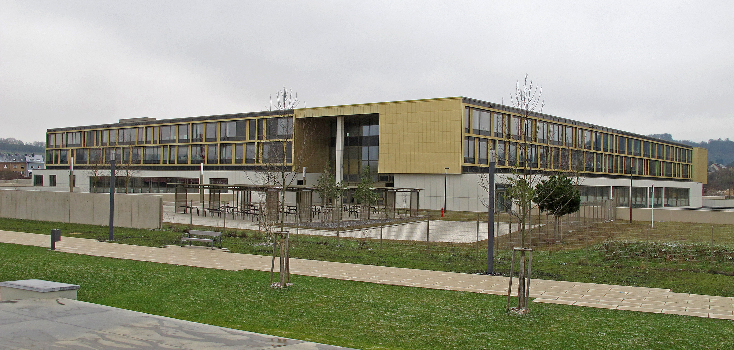 The secondary school Lycée Bel-Val, Belvaux, Luxembourg